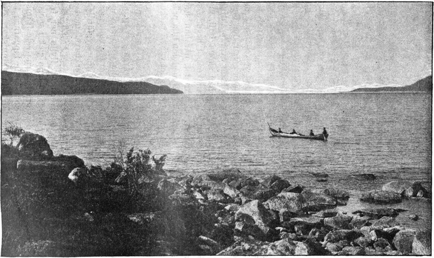 "Torne träsk" Photo by "B. Mesch". Illustration from Nils Holgerssons underbara resa genom Sverige by Selma Lagerlöf.